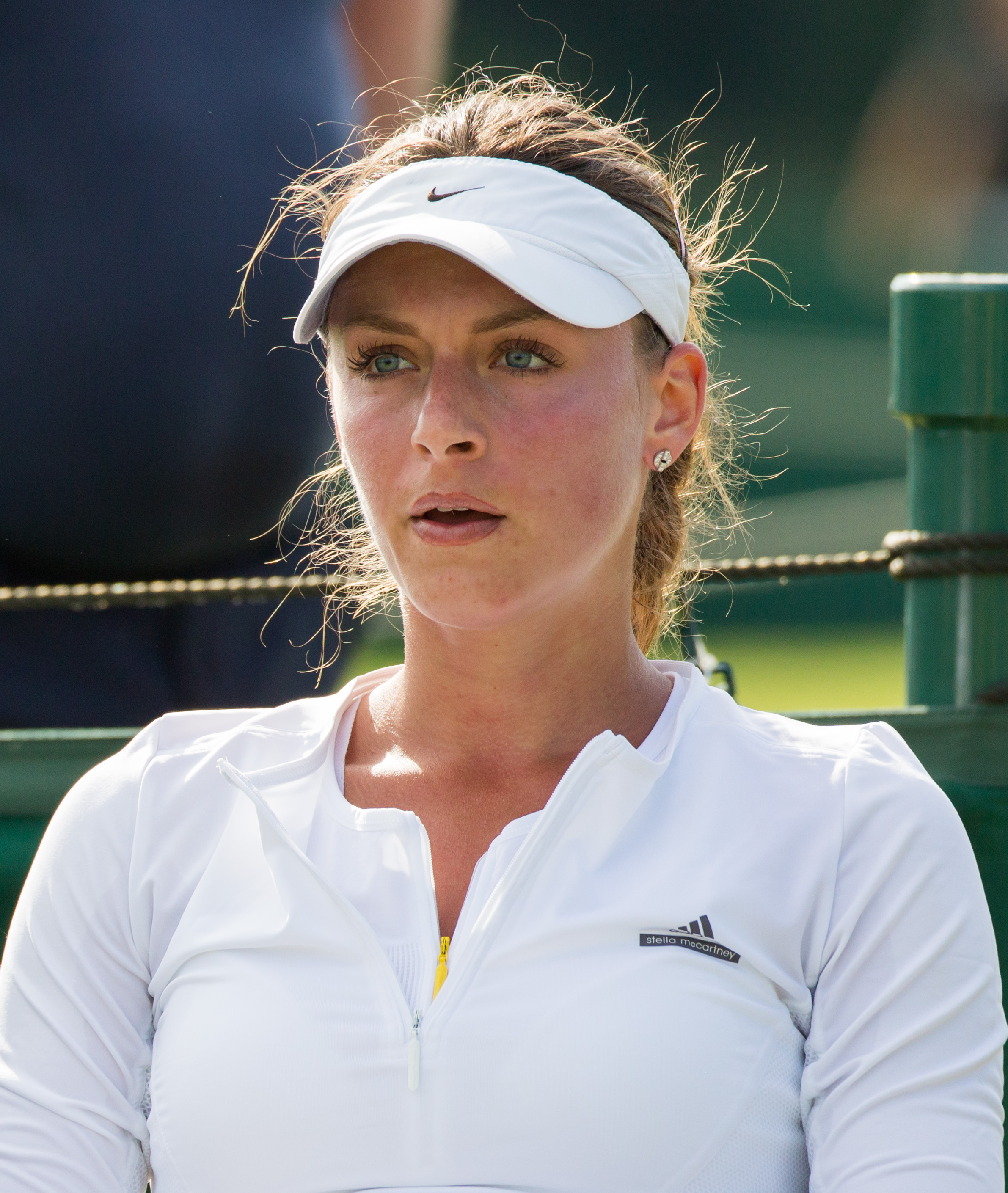 Ana Bogdan competing in the first round of the 2015 Wimbledon Qualifying Tournament at the Bank of England Sports Grounds in Roehampton, England. The winners of three rounds of competition qualify for the main draw of Wimbledon the following week.